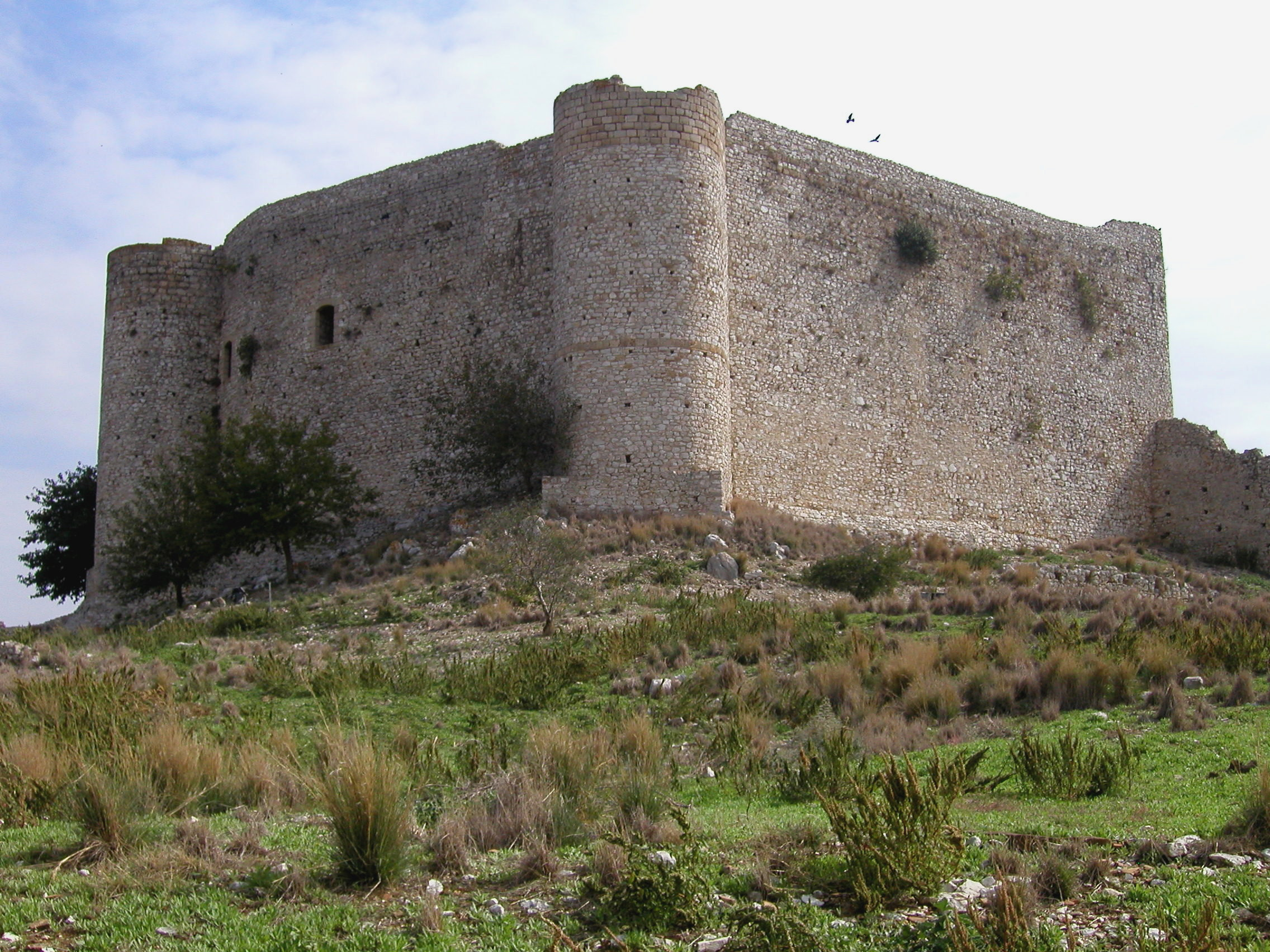 Chlemoutsi Date7.10.2005SourceOwn workAuthorRoman Klementschitz, Wien